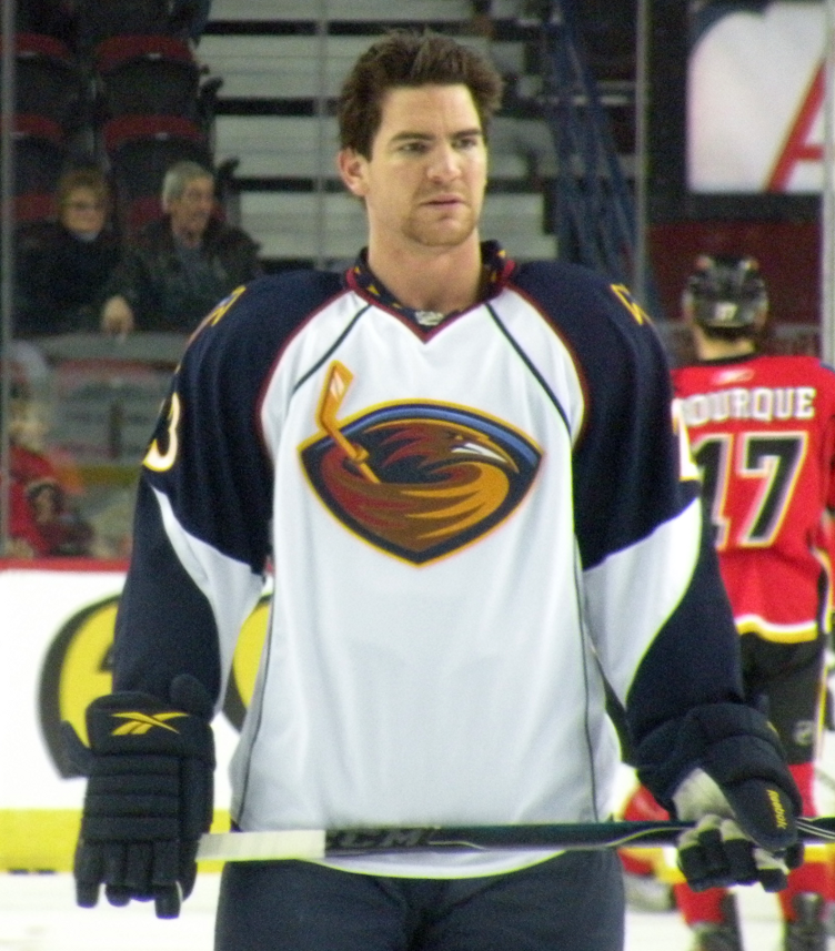 Atlanta Thrashers forward Jim Slater prior to a National Hockey League game against the Calgary Flames, in Calgary.